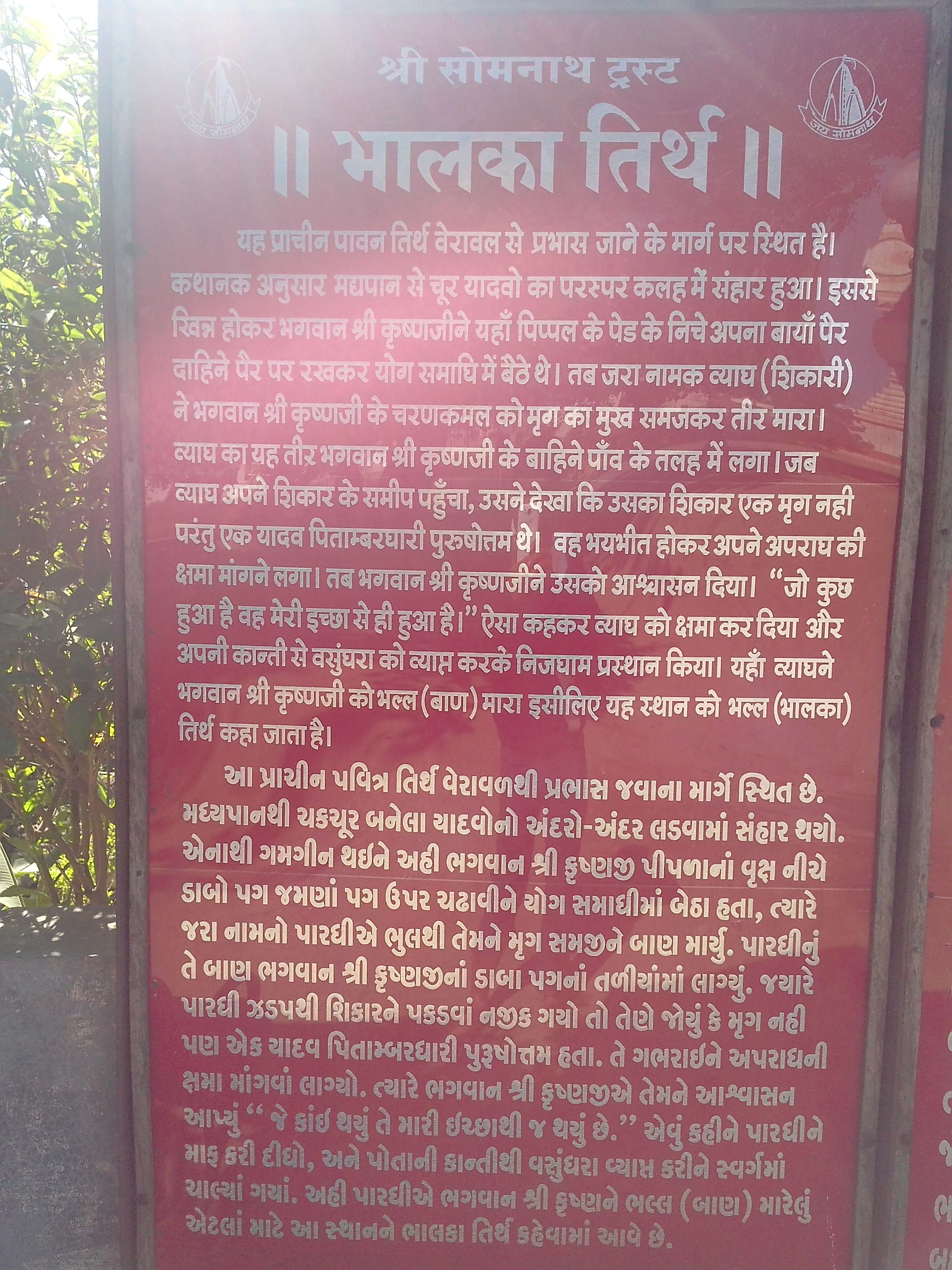 Bhalka, Near Somnath, Gujarat, India. The place where Lord Krishna left for heavenly abode in 3102 BC.